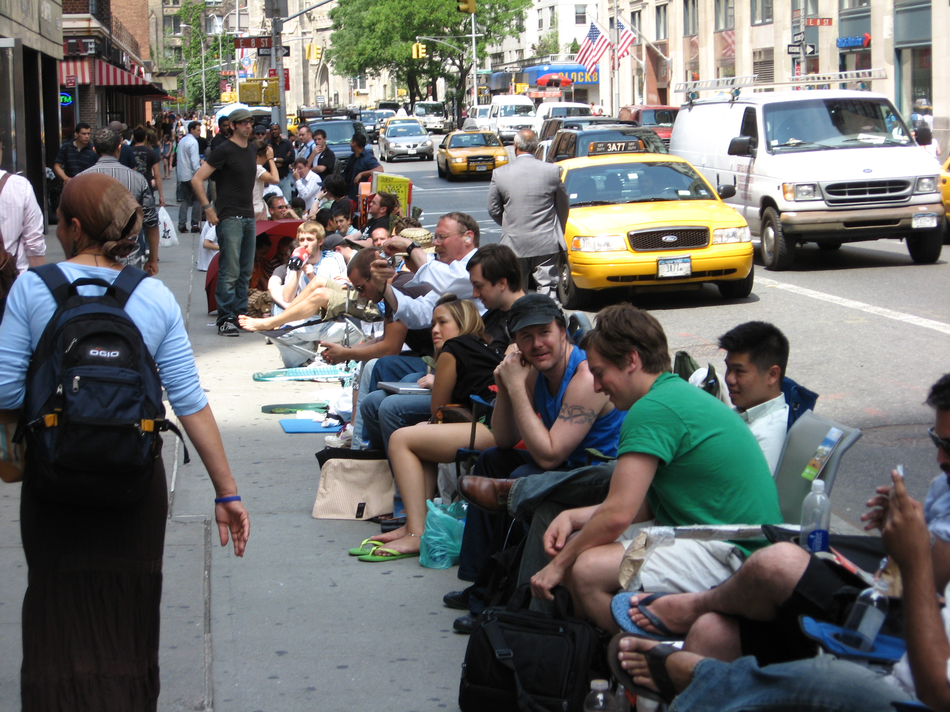 Mac addicts line up at an AT&T store on Broadway for iPhone debut.